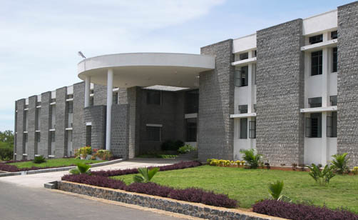 BIT CA Block